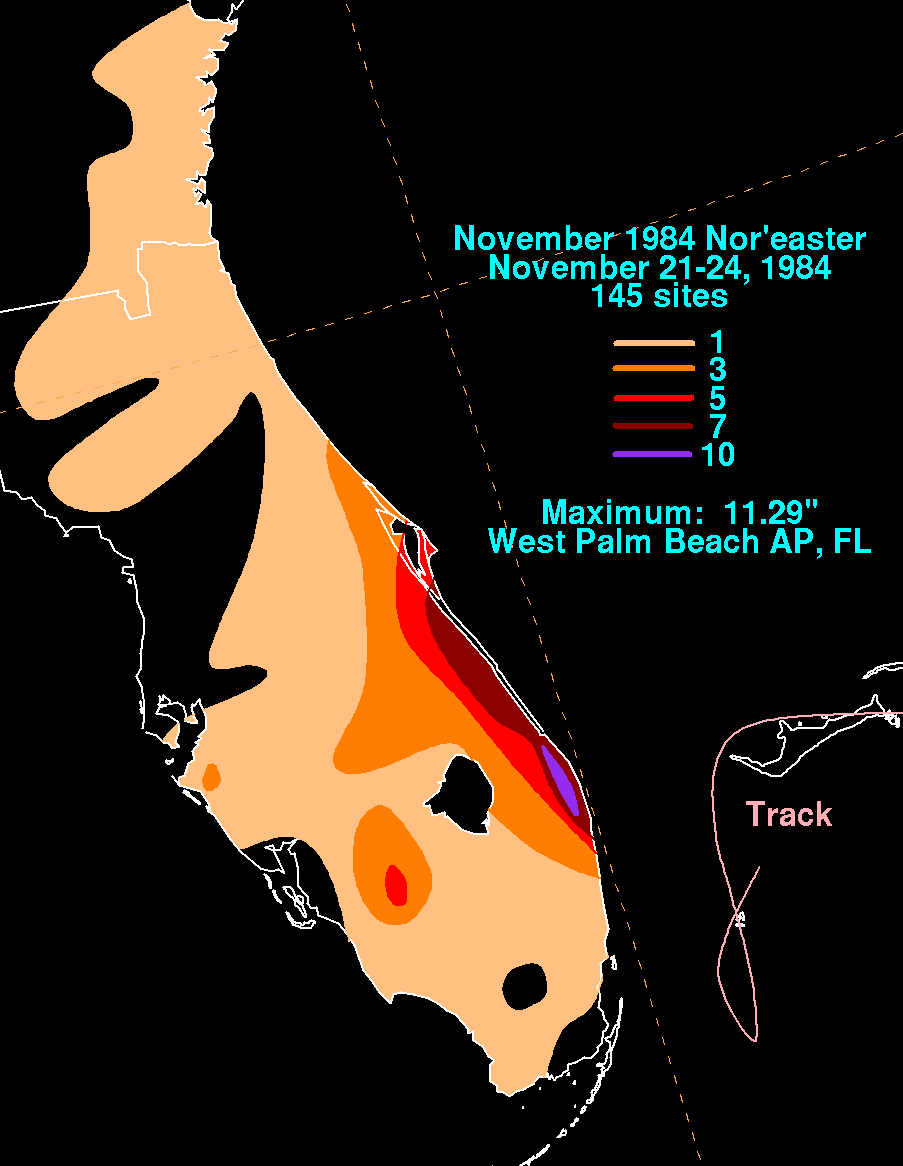 Storm total rainfall map of a nor'easter during November 1984.